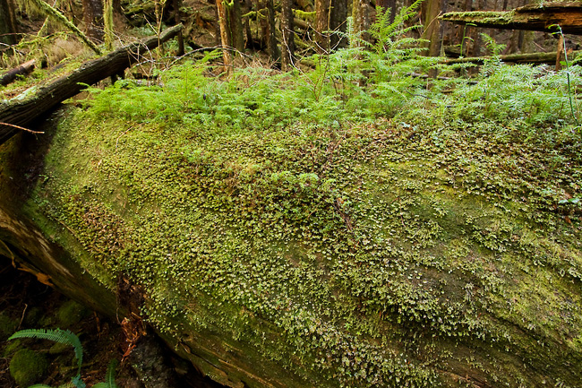 Nurse logs are characteristic of old-growth forests. As old trees die and fall to the forest floor they begin to slowly decay. This provides an excellent starting ground for young seedlings (here Tsuga heterophylla) and also retains moisture necessary for species such as Lungless salamanders.